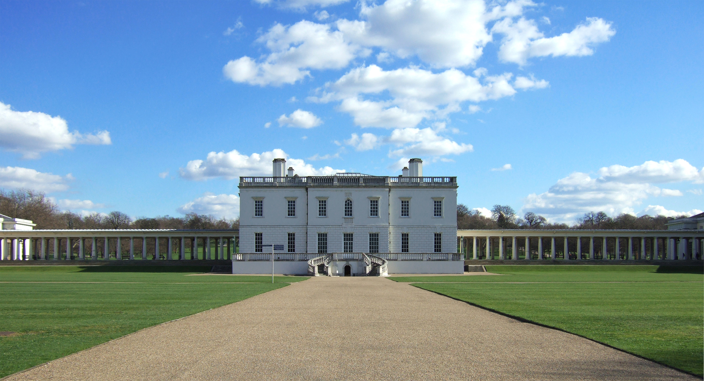 Queen's House in Greenwich, South East London, United Kingdom.